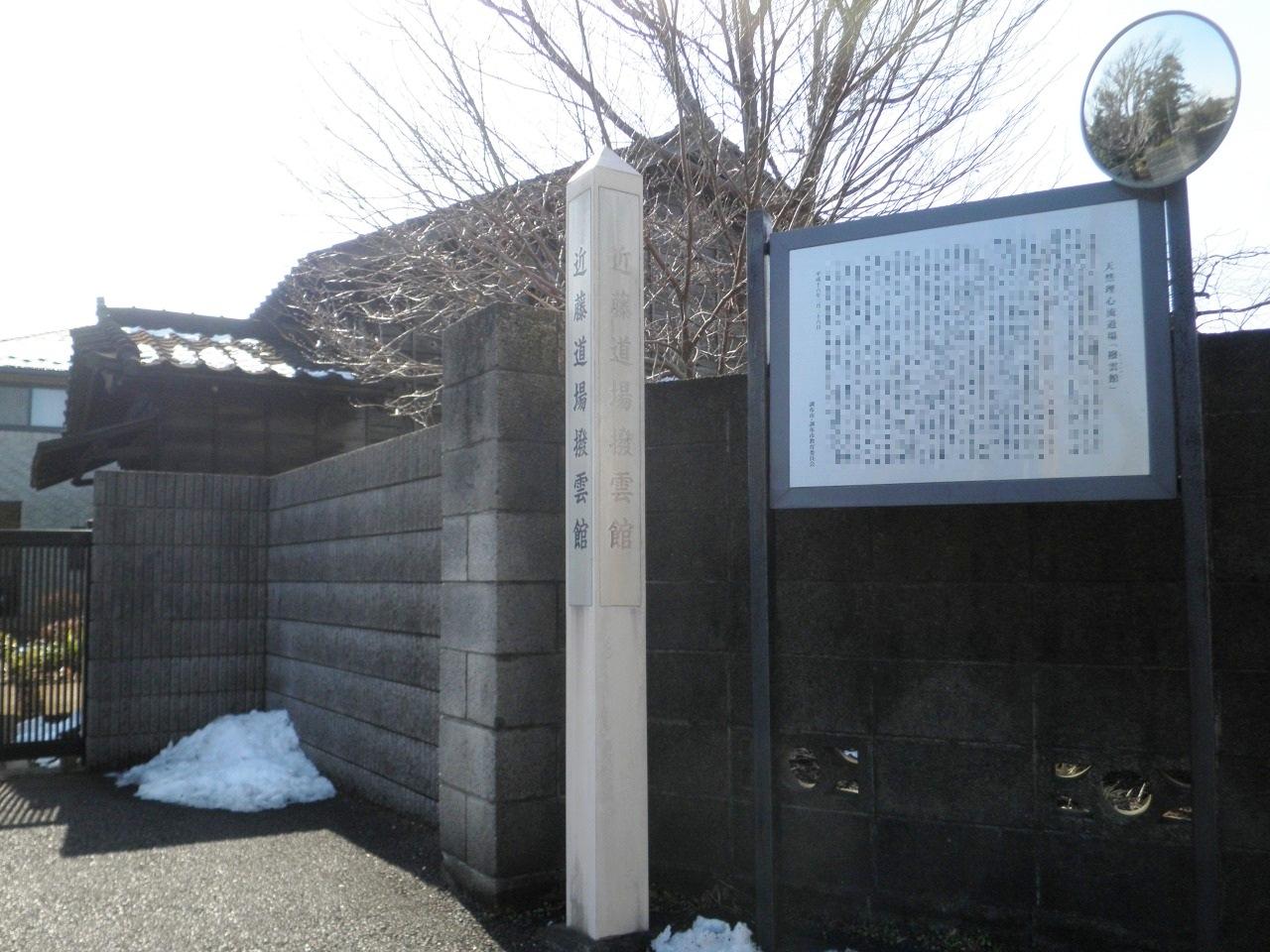 Hatsuunkan, Kondō Yūgorō's kenjutsu dōjō in Chōfu, Tokyo.